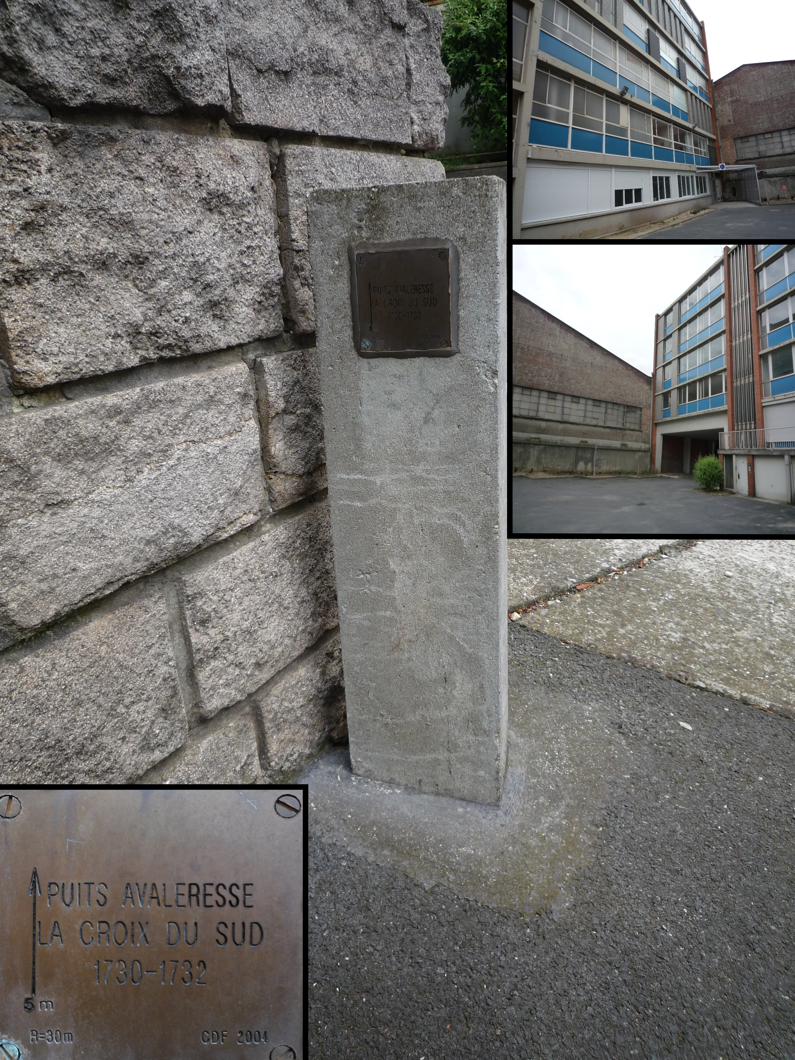 Pit Avaleresse La Croix du Sud at Anzin, France.